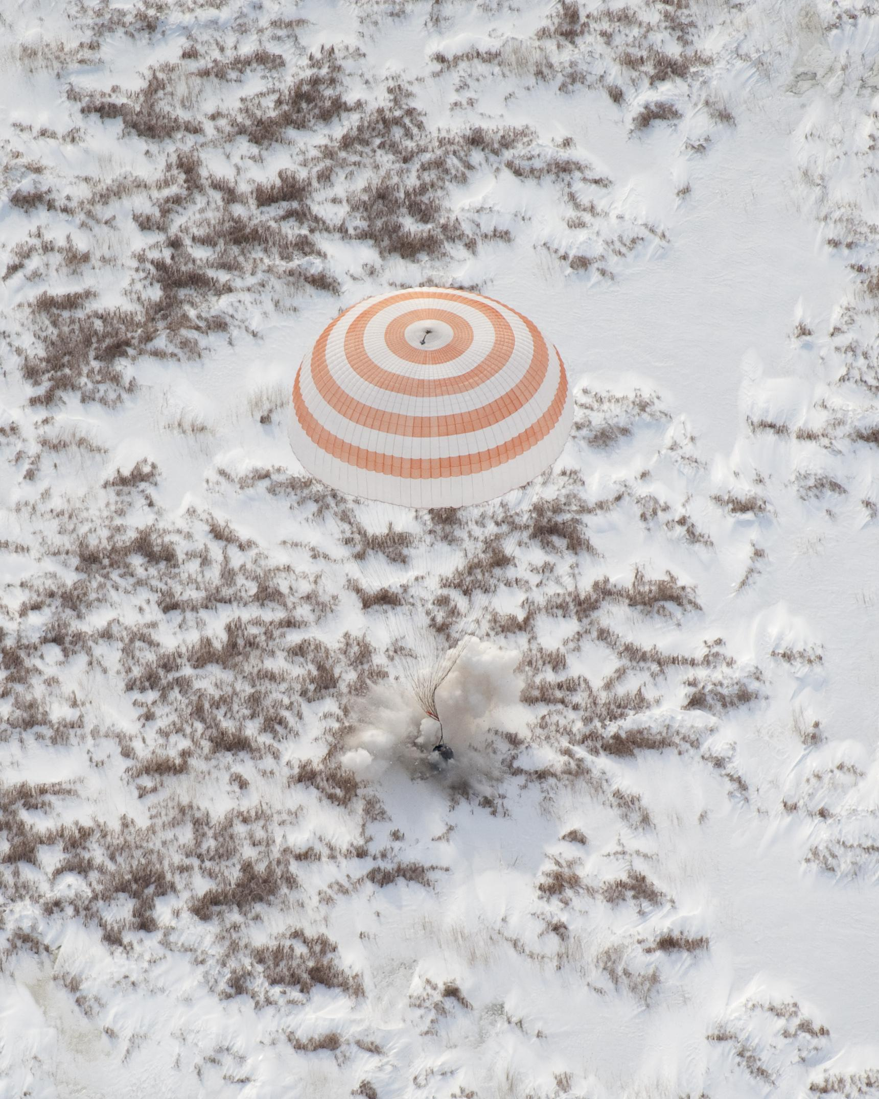 The Soyuz TMA-16 spacecraft is seen as it lands with Expedition 22 Commander Jeff Williams and Flight Engineer Maxim Suraev near the town of Arkalyk, Kazakhstan on Thursday, March 18, 2010. NASA Astronaut Jeff Williams and Russian Cosmonaut Maxim Suraev are returning from six months onboard the International Space Station where they served as members of the Expedition 21 and 22 crews.